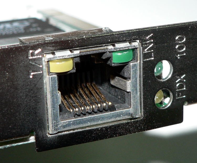 hardware RJ-45 on netcard